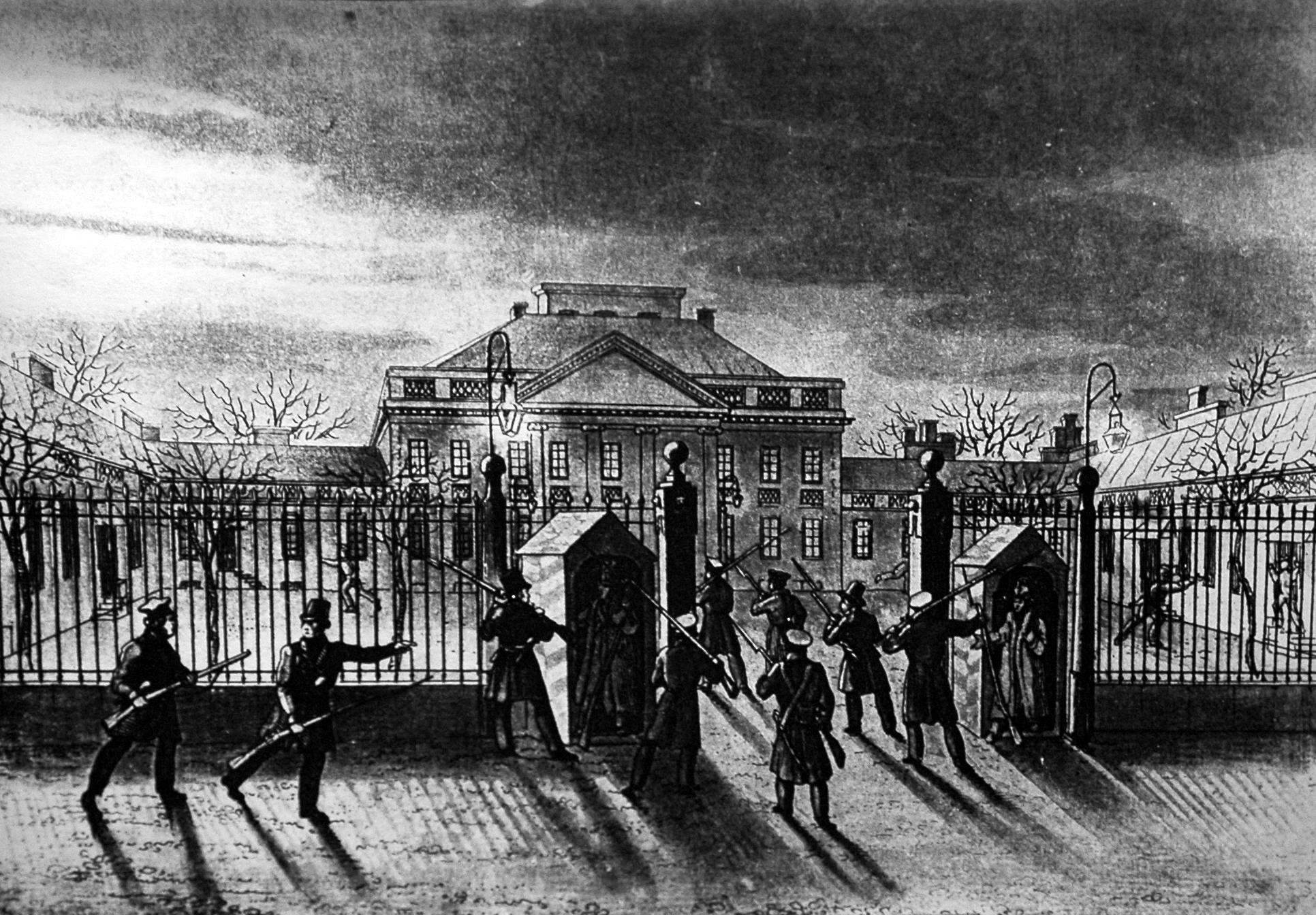 Made on a summer day in the Museum of the Polish Army in Warsaw A series of anonymous xylographs depicting the early stages of the November Uprising in Warsaw, as well as the aftermath of the fights - the Great Emigration Storming the Belweder palace, the seat of the tsarist governor